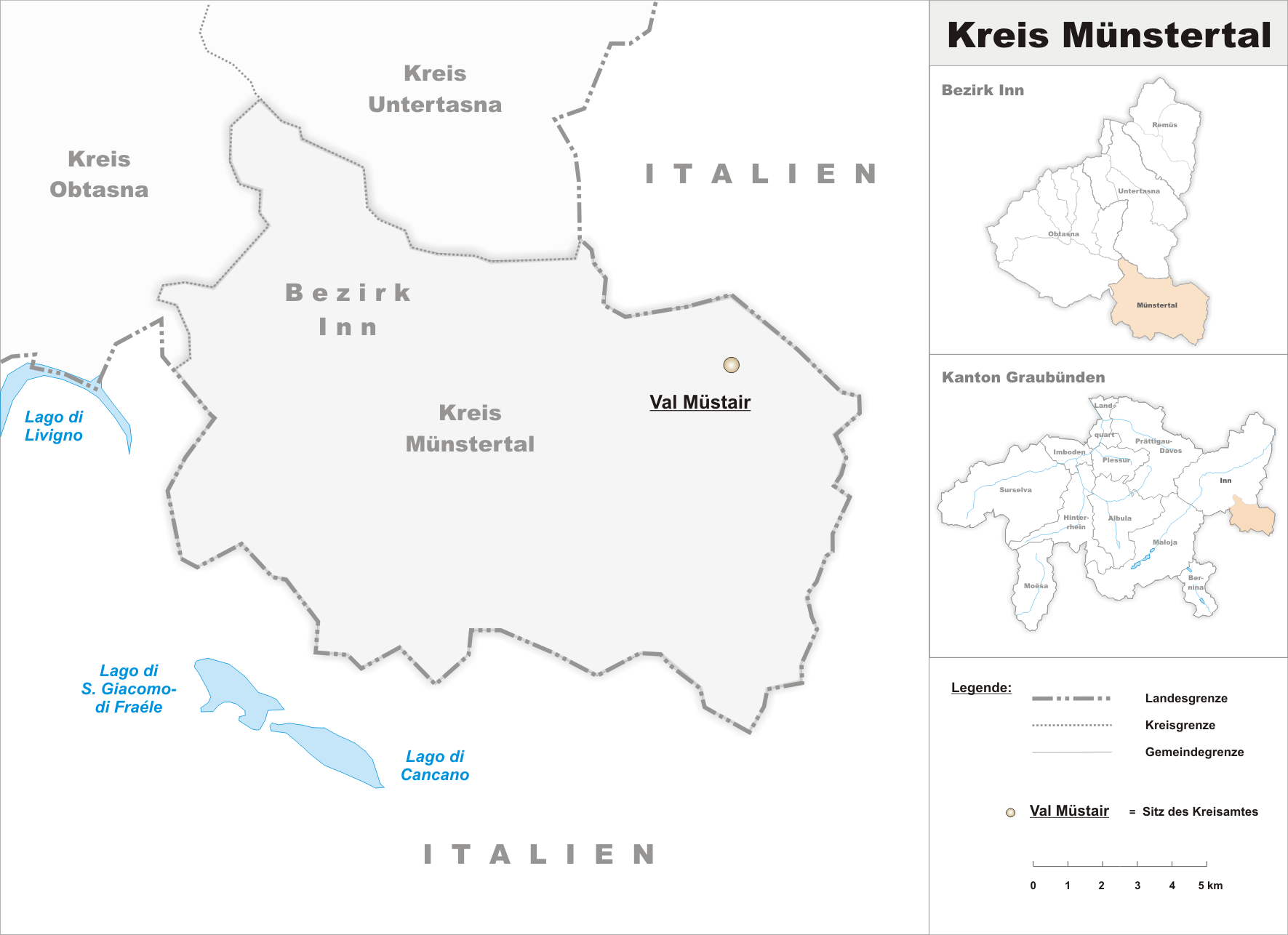 Municipalities in the circle of Münstertal